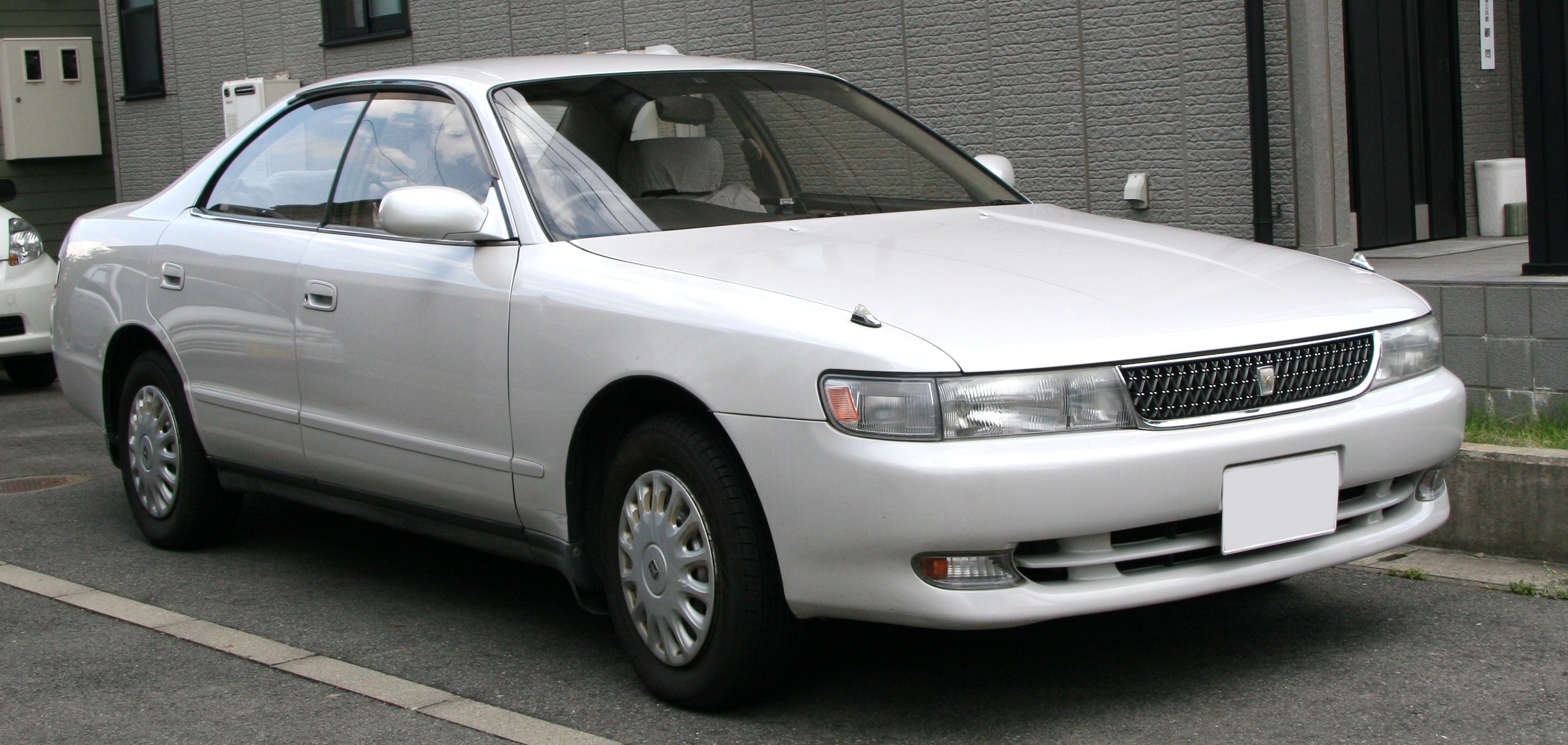 Toyota Chaser